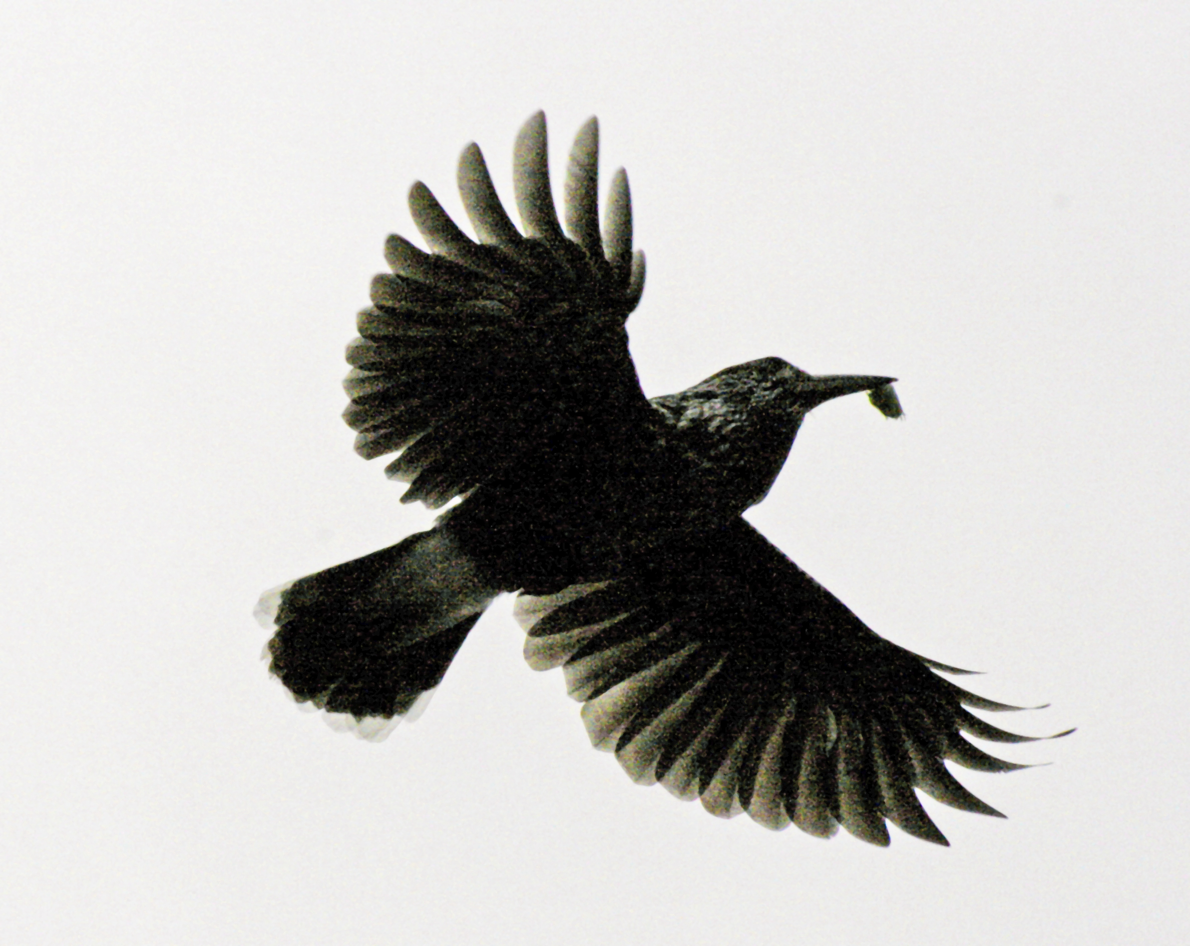 Spotted Nutcracker in Neumart in Steiermark, Styria, Austria, Europe